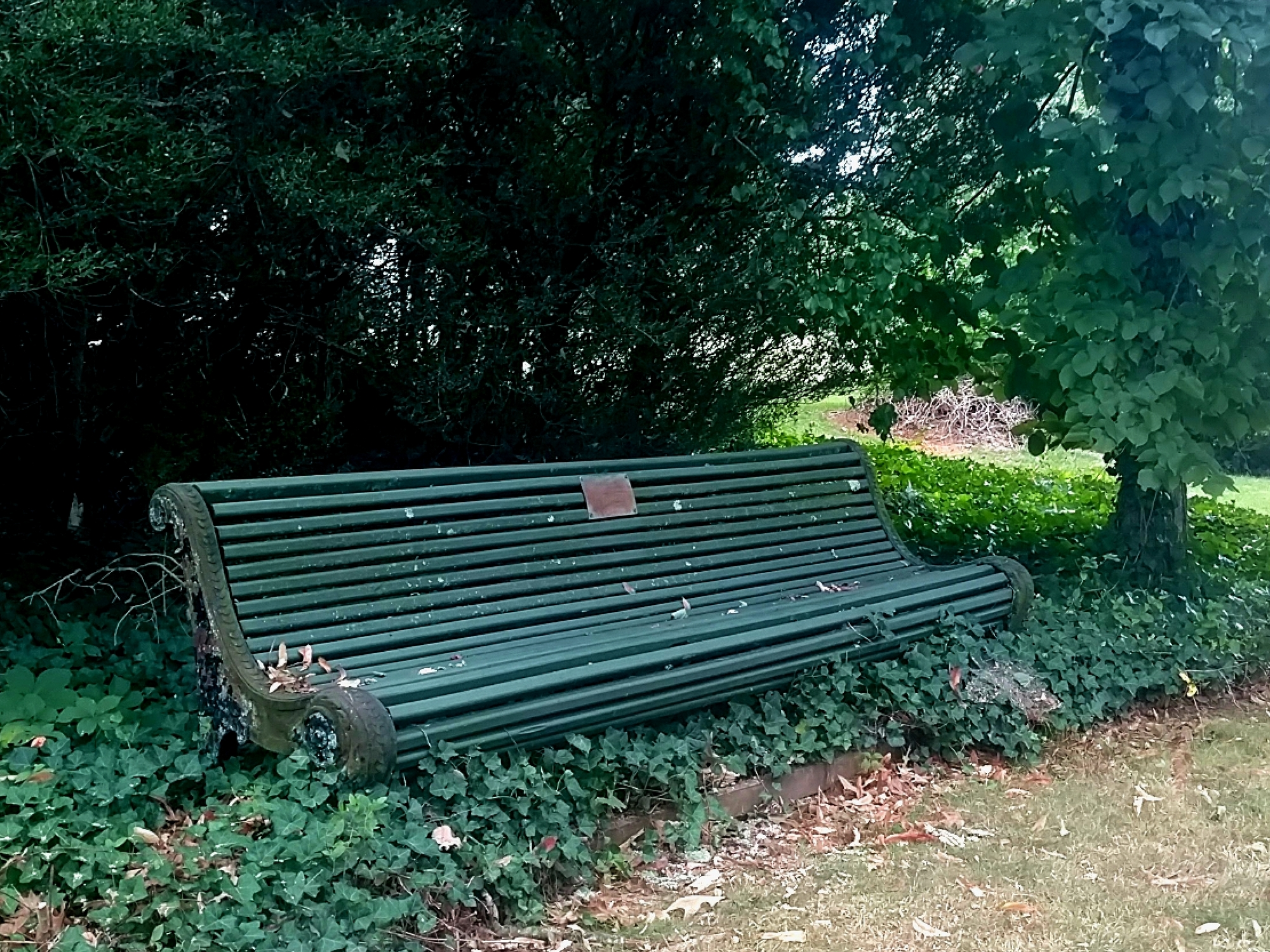 The Pasternak Bench at the Virginia Center for the Creative Arts in Amherst, Virginia. A gift from the Russian Writers Colony Peredelkino to VCCA, Pasternak was known to sit at this bench as did other Russian writers including Isaac Babel, Aleksandr Solzhenitsyn, Andrei Voznesensky, and Yevgeny Yevtushenko.